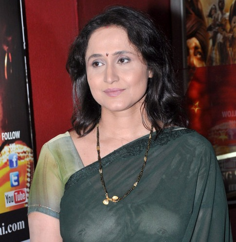 Marathi film actress Dr. Nishigandha Wad.